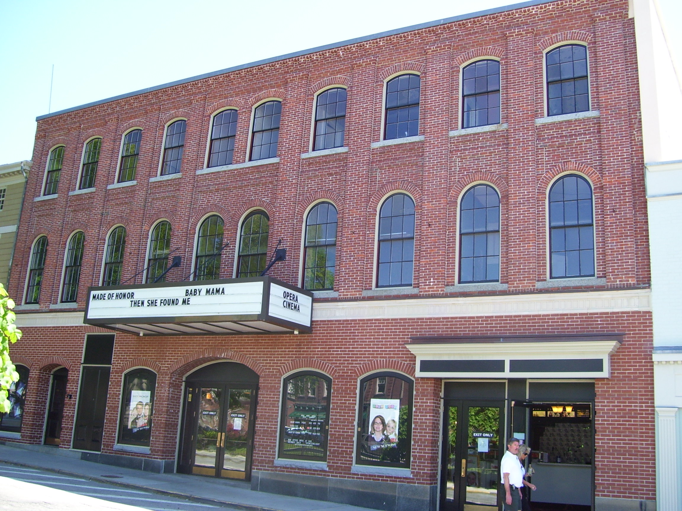 My 2008 photo of the Opera House theater in Newport, RI.